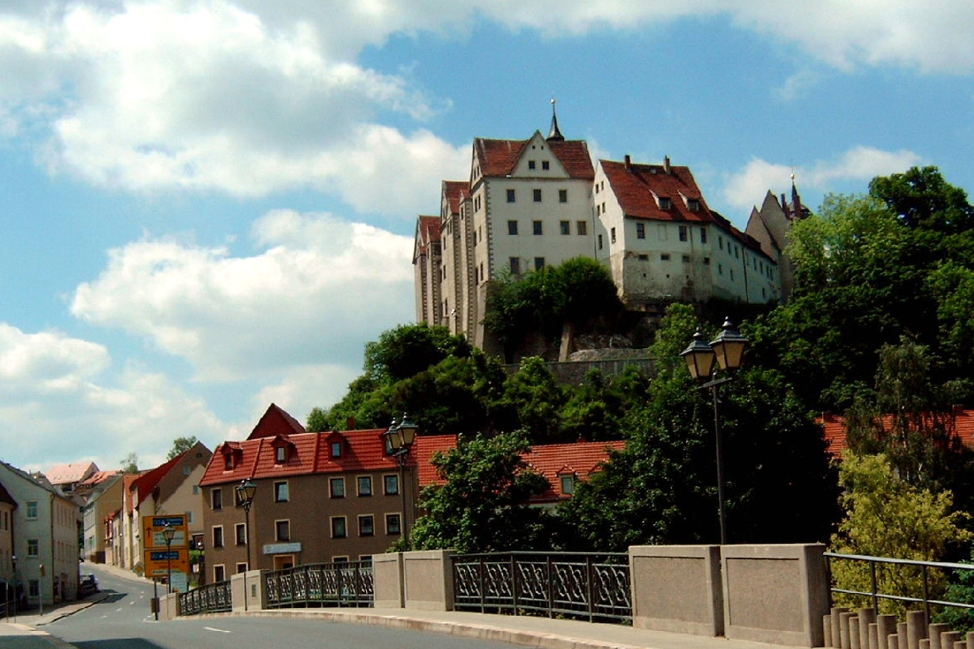 This picture shows the castle of the German town Nossen.